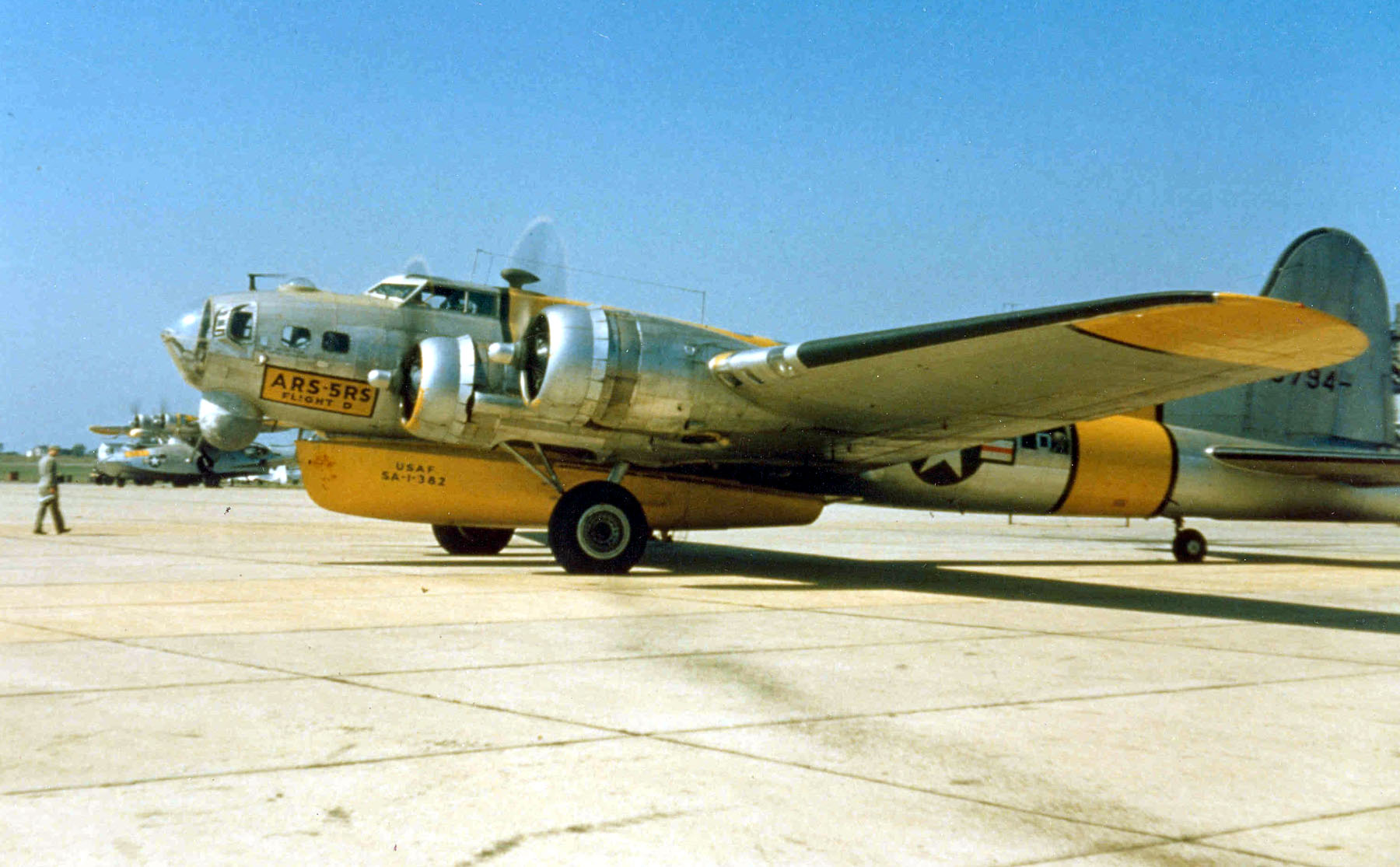 Boeing SB-17G of the 5th Rescue Squadron, Flight D.